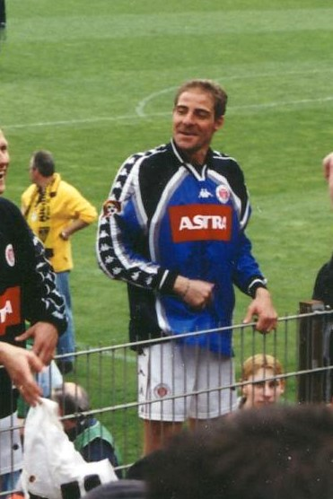 Daniel Scheinhardt as Player of FC St. Pauli